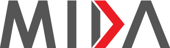 mida of malysia LOGO